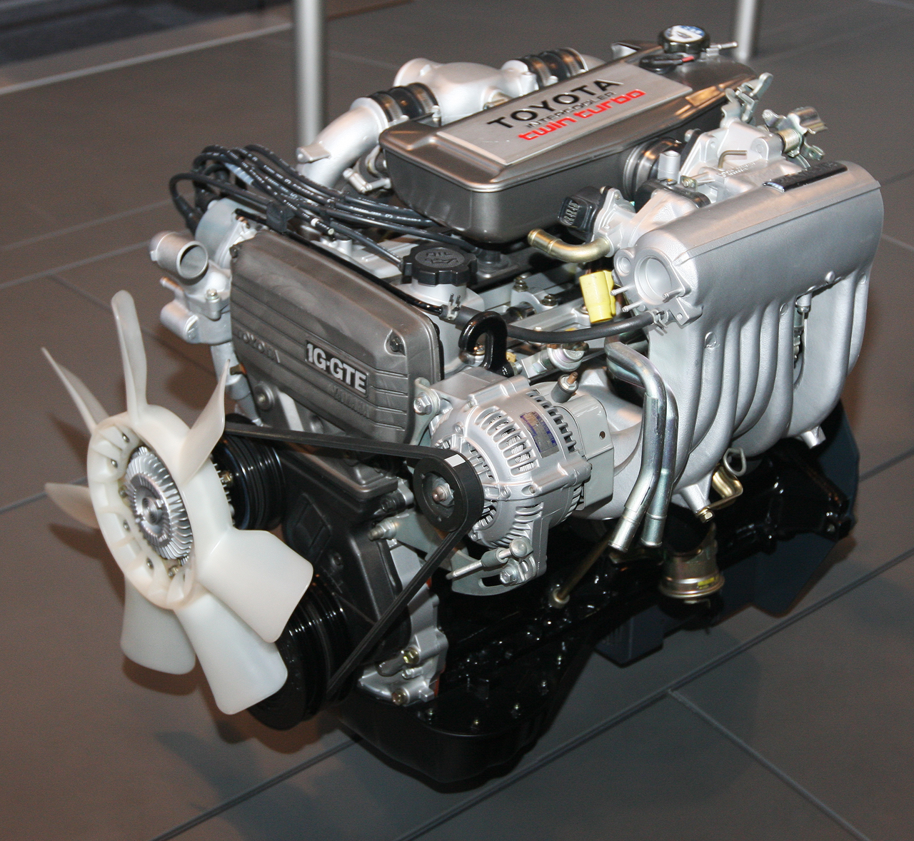 1985 Toyota 1G-GTEU Type engine. L6 1,988cc.